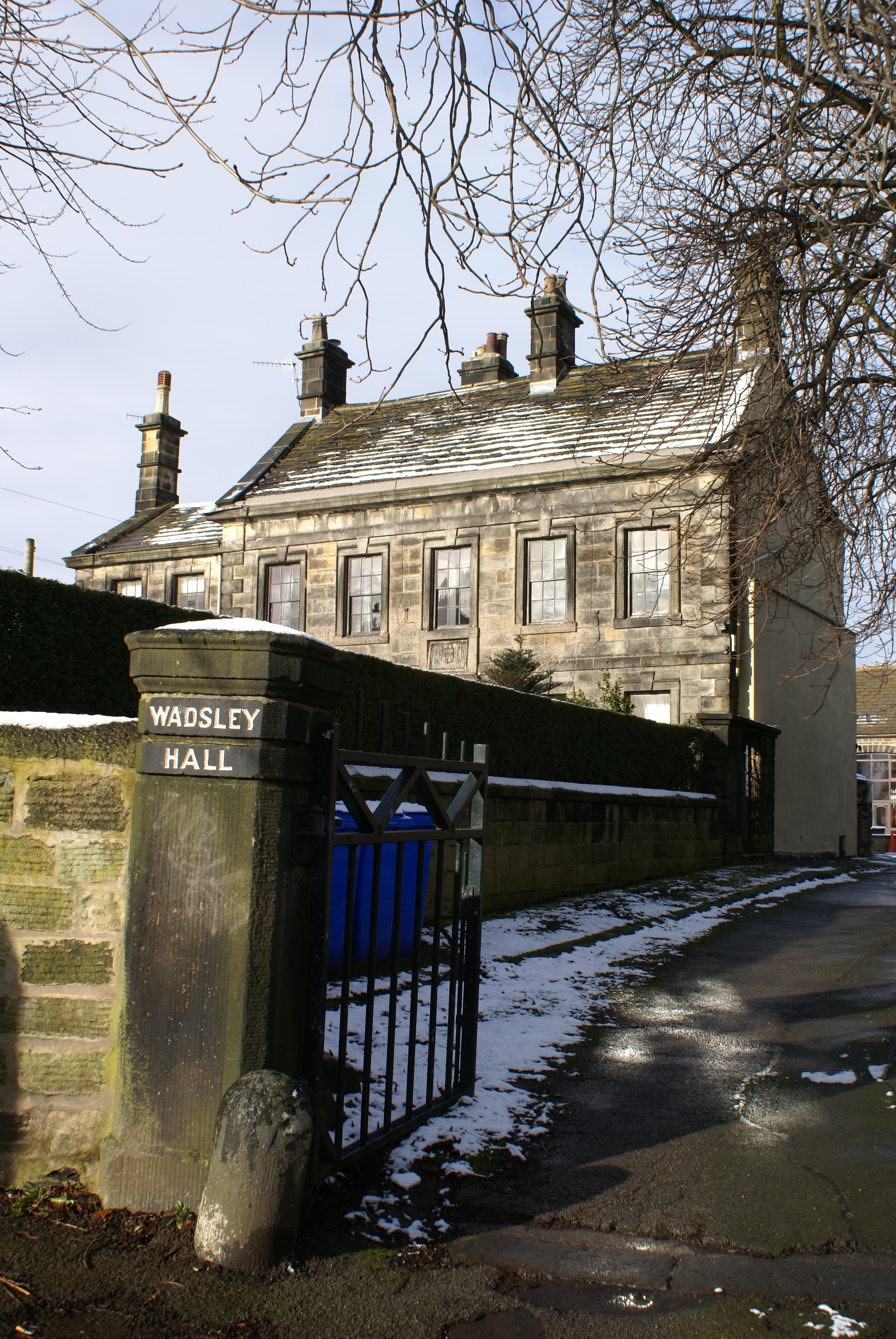 Wadsley Hall, Far Lane, Hillsborough, Sheffield, South Yorkshire, seen from the southeast